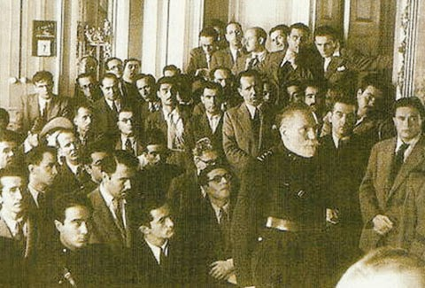 Racism-Turanism case in Turkey, 1944